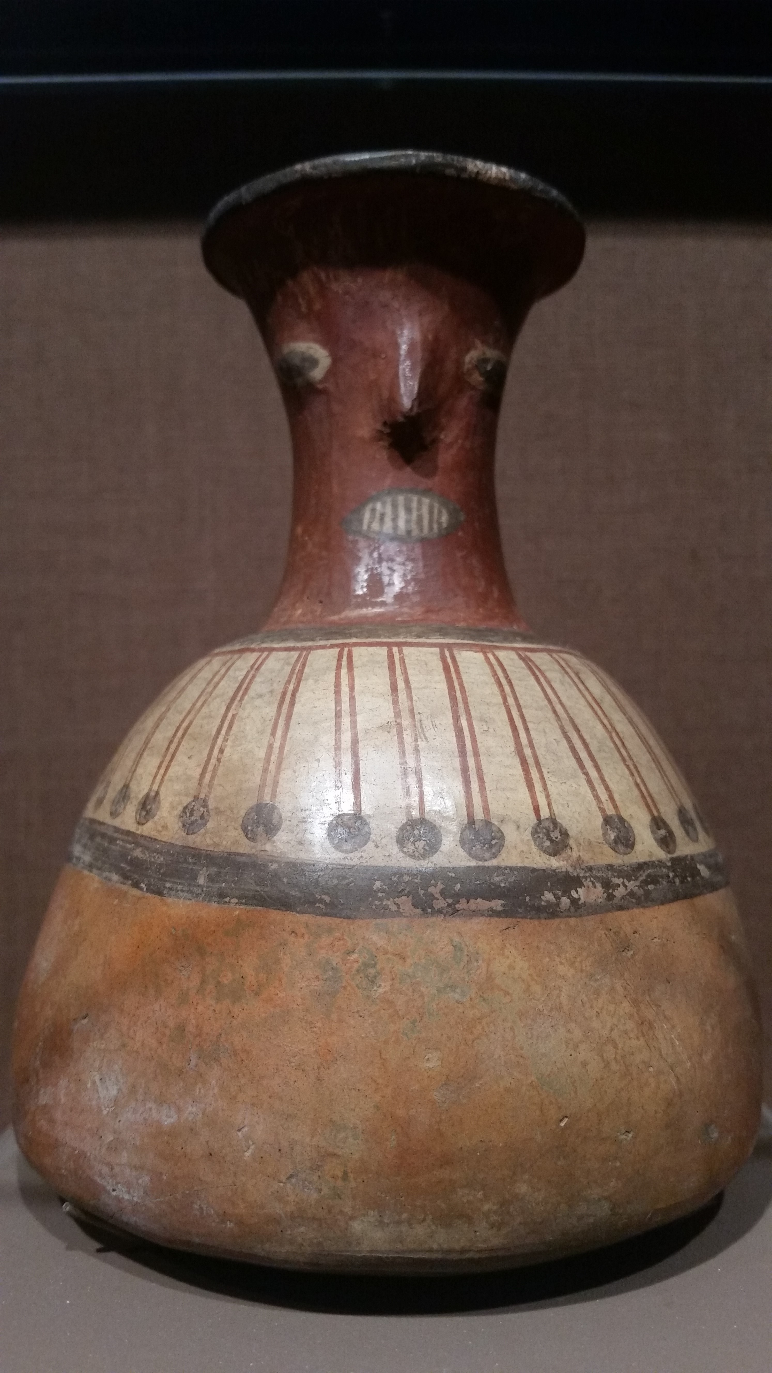 Artifact collected on Bingham's 1912 expedition to Macchu Picchu on display in the Museo Machu Picchu, Casa Concha, Cusco